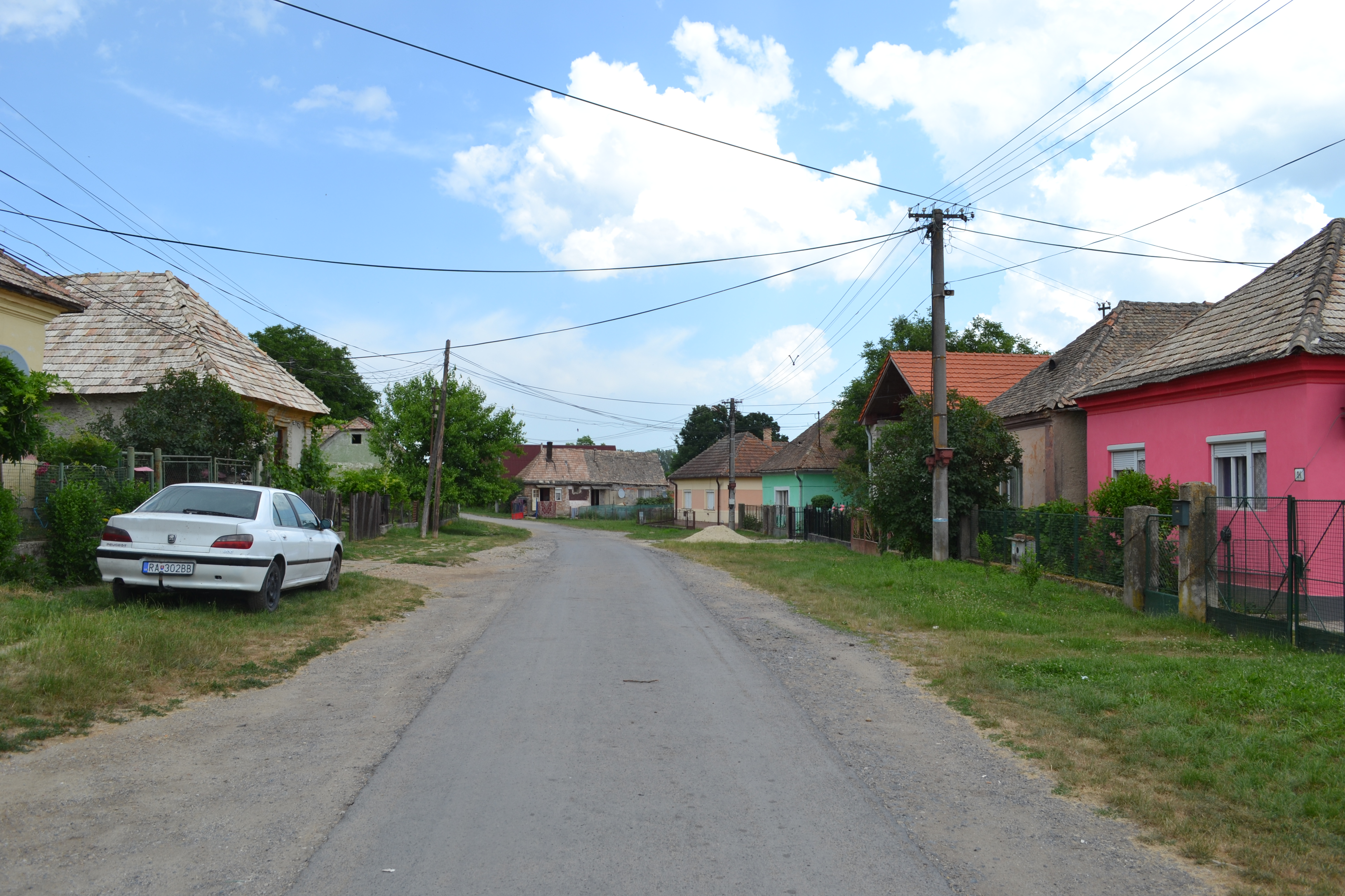 Street of the village Martinová